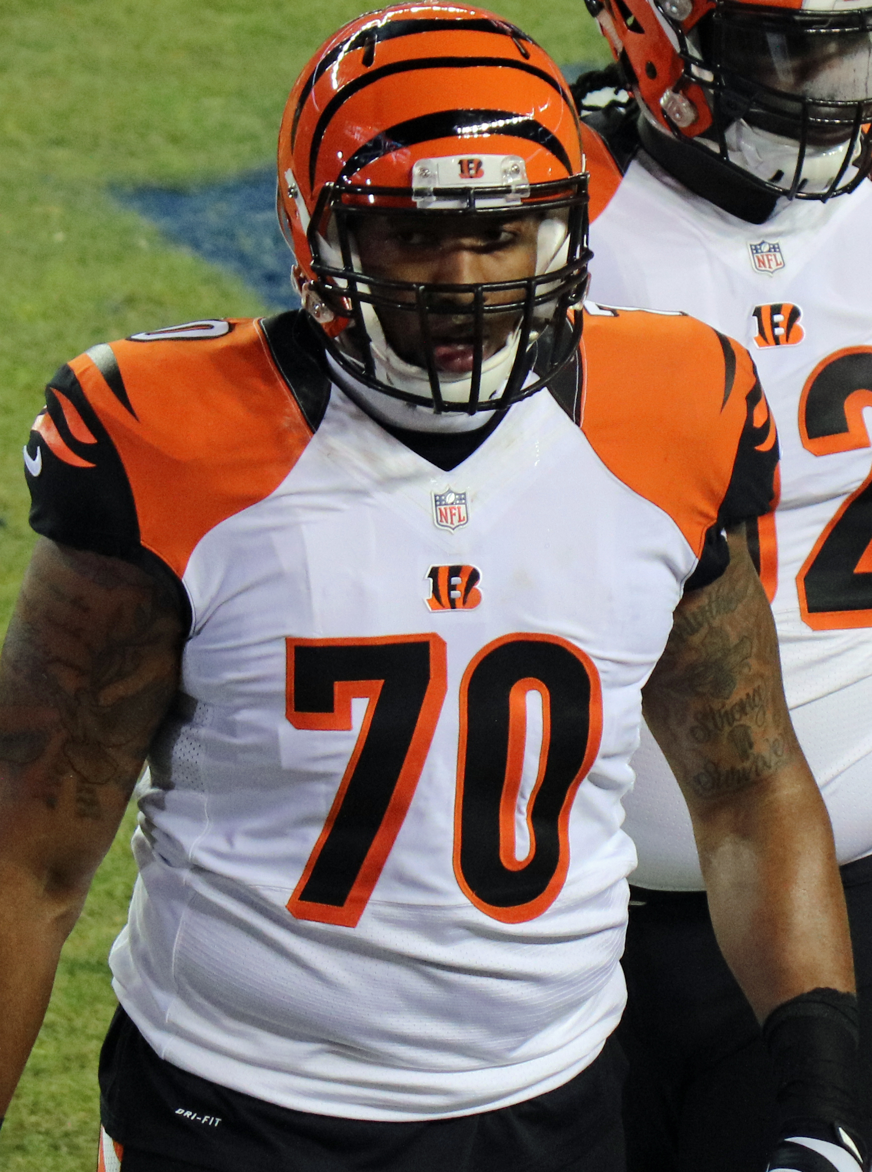 Cedric Ogbuehi, a player on the National Football League.